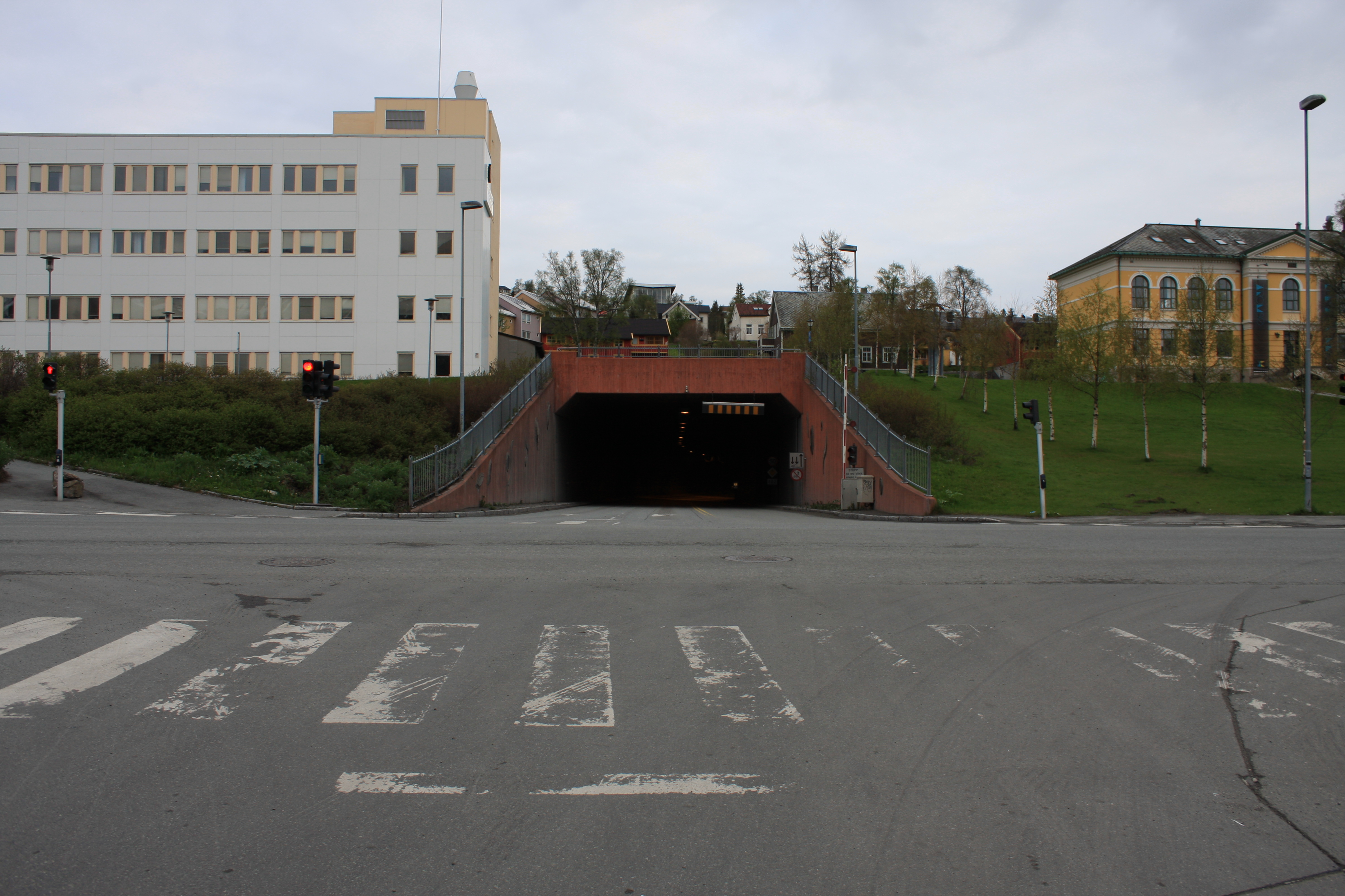 The tunnel entrance in South Sentrum of Tromsø, Norway